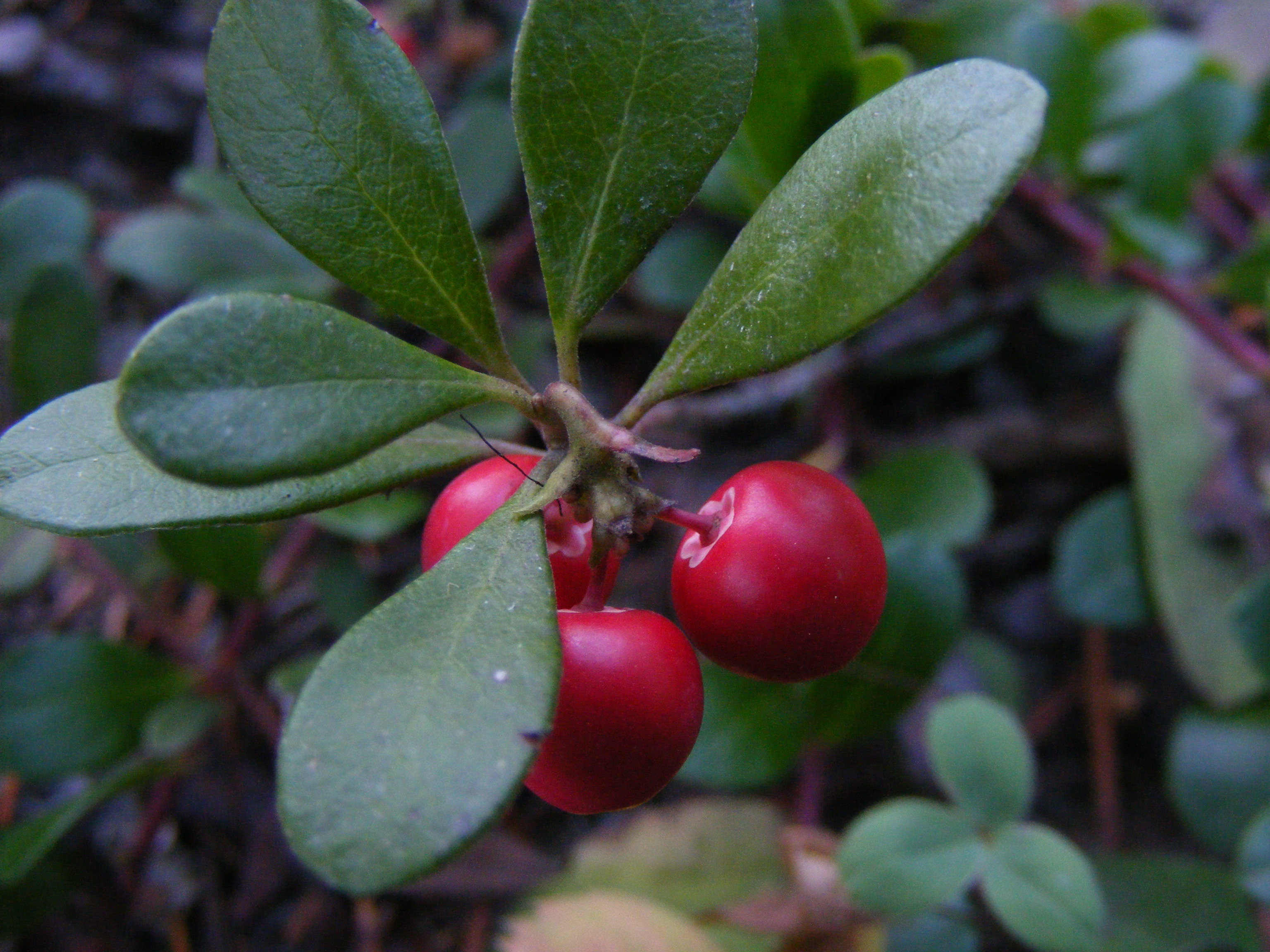 Common bearberry, Kinnikinnick (Arctostaphylos uva-ursi) - fruits and leaves. Photo taken in the Selkirk Mountains of northern Idaho.